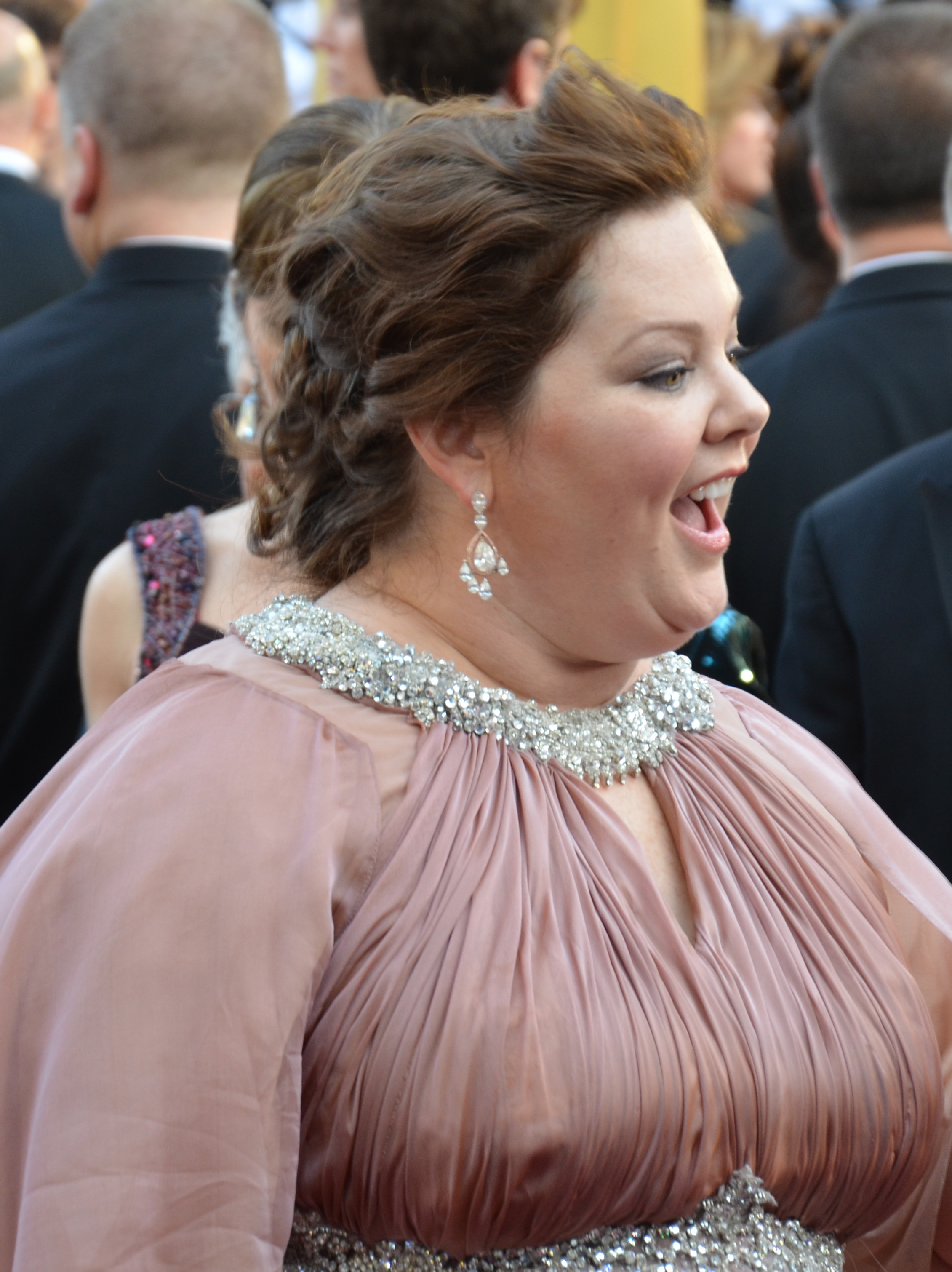 Melissa McCarthy DSC_0812